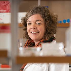 “Science is a critical foundation for MfE’s work. It helps us understand where we are now, why, and what we can do about it. It provides possibilities of new solutions, as well as risks to be understood and managed”, says MfE Chief Executive Vicky Robertson. This year’s focus on green growth is relevant to MfE as we work to ensure economic growth and development is not at the expense of our environment. - From NZ Womens day 2019